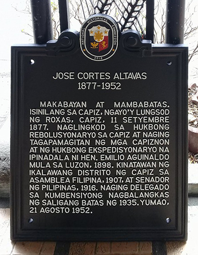 Jose Cortes Altavas NHCP Historical Marker